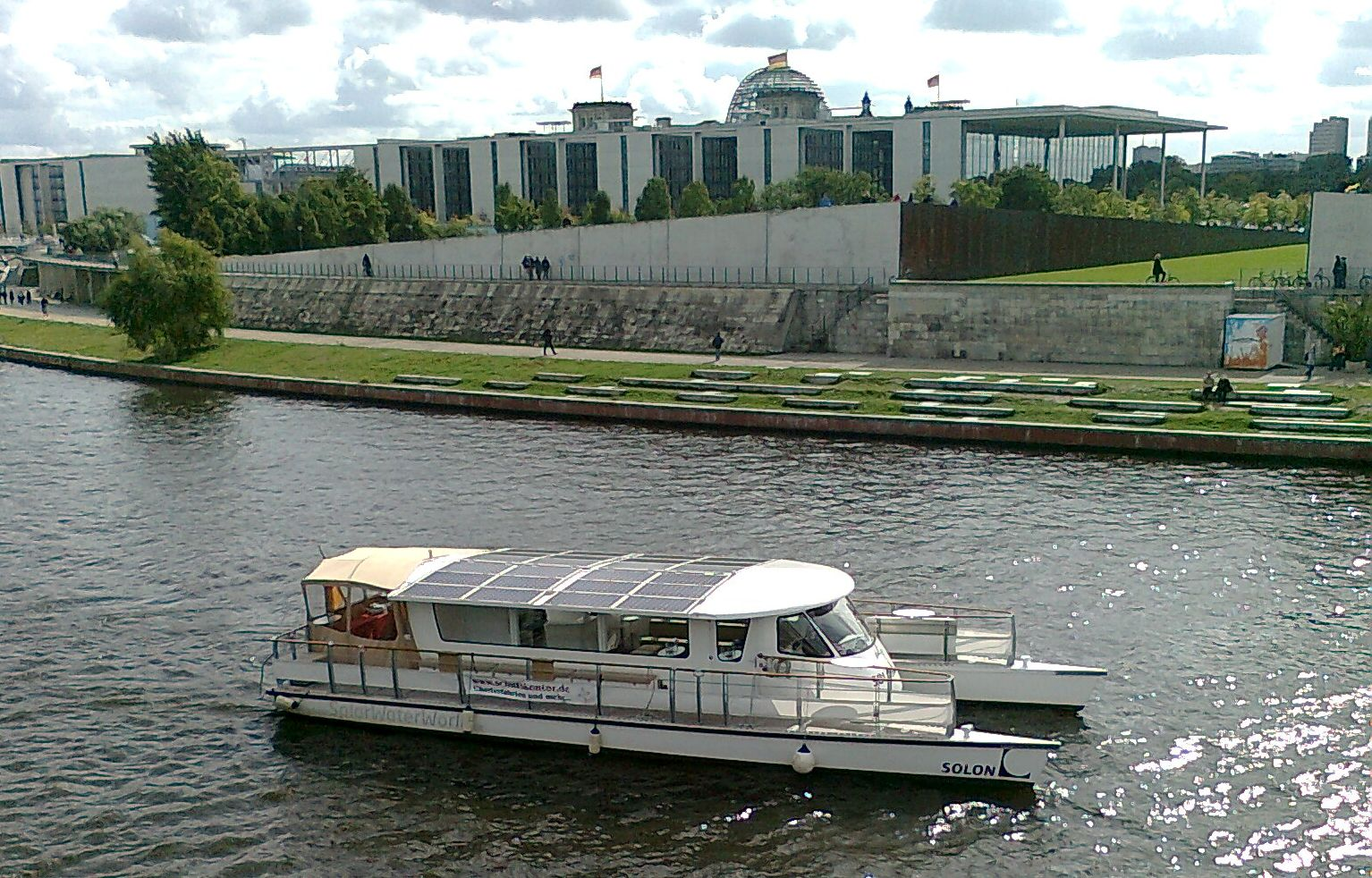 2010-09-19 solarship Solon in Berlin/Germany